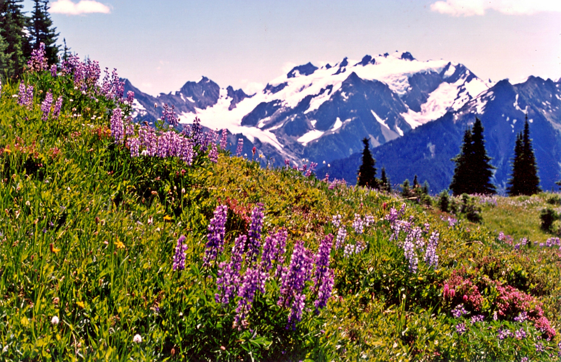 Mount Olympus with lupine wildflowers near High Divide. Olympic National Park